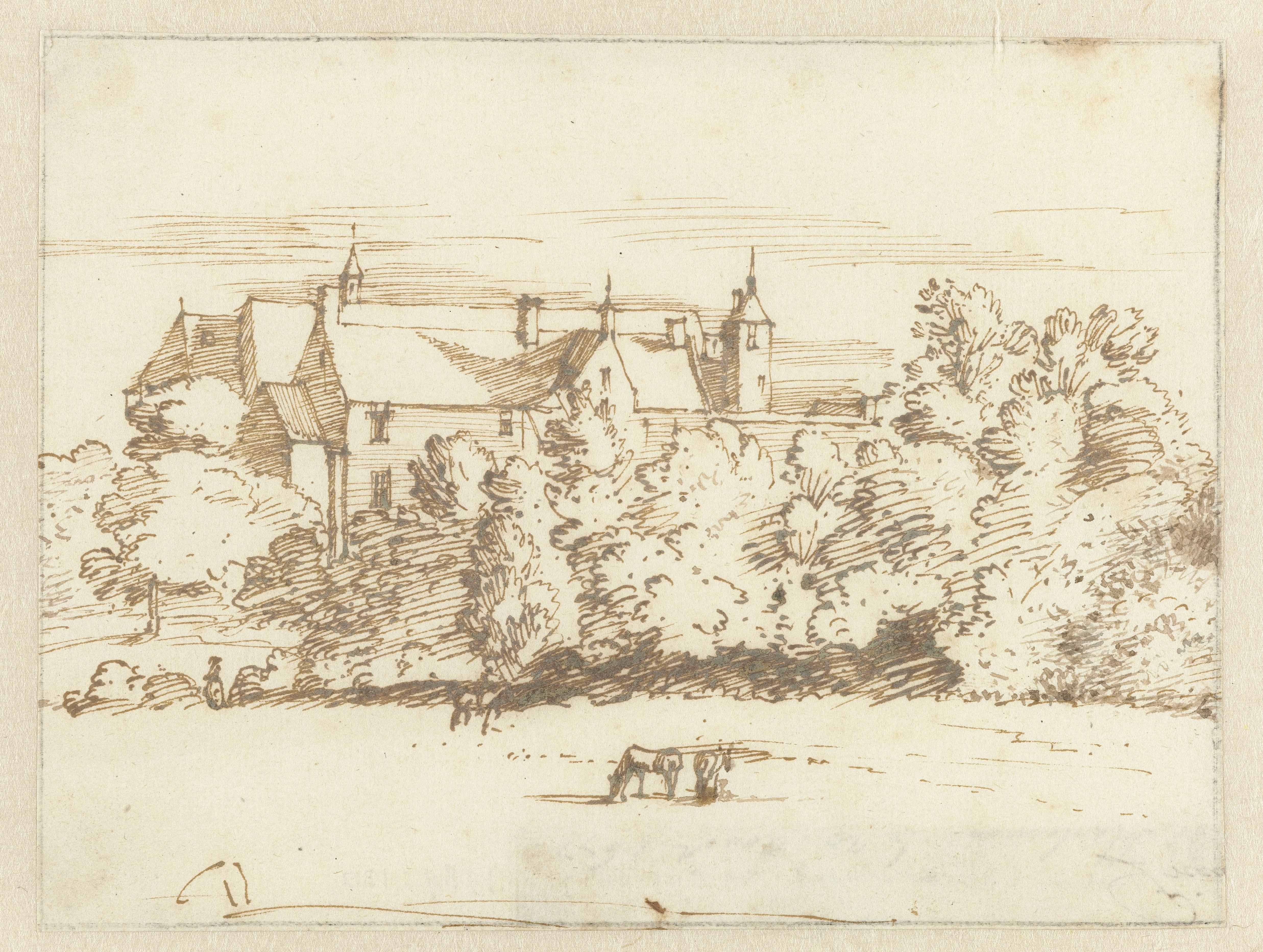 Priory of Chapelle-lez-Herlaimont, drawn by Constantijn Huygens (II) in 1677 (Rijksmuseum)